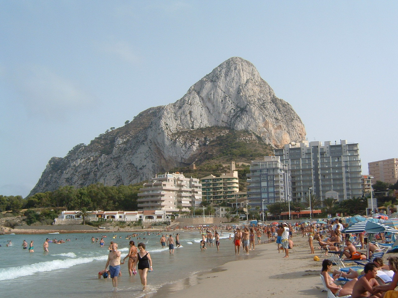 Personal picture of th Ifach rock in Calpe in Spain.